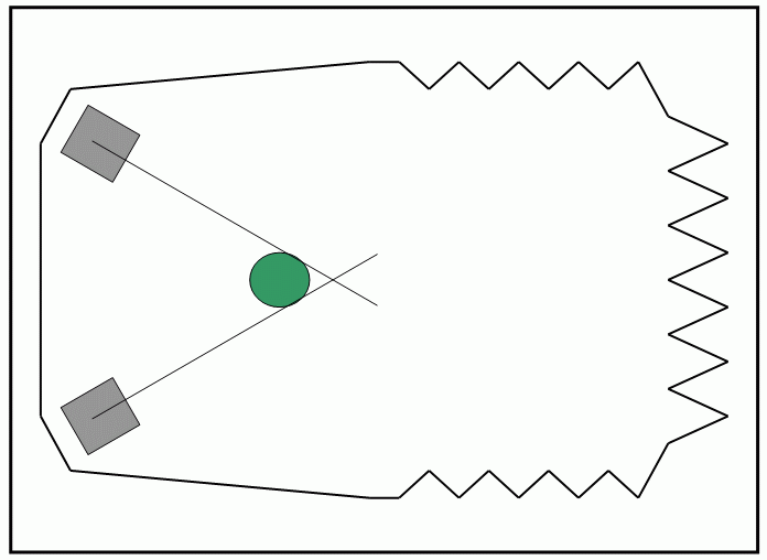 an example of a modern control room for recording and mixing